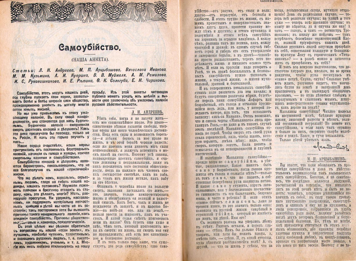 "A suicide", articles by russian novellists